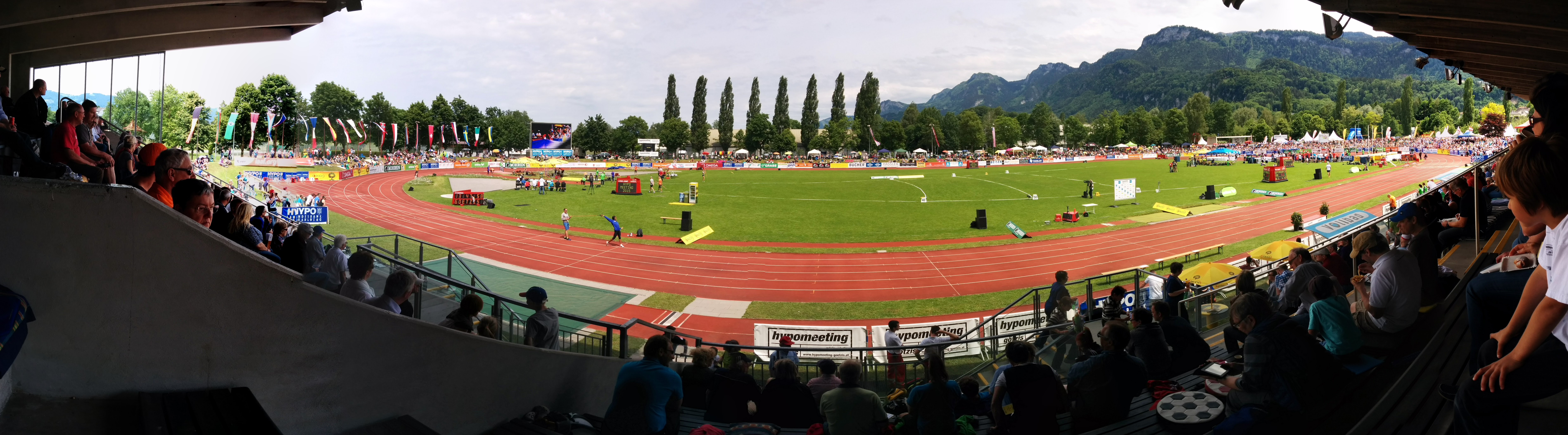 2015 Hypo-Meeting, Mösle stadium, Götzis, Austria